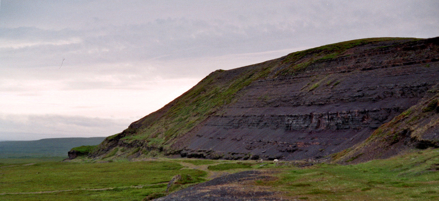 Seen from highway E75 on Varangerhalvøya on the northern shore of the Varangerfjord between Vardø and Vadsø in Finnmark in northern Norway. Near Vardø